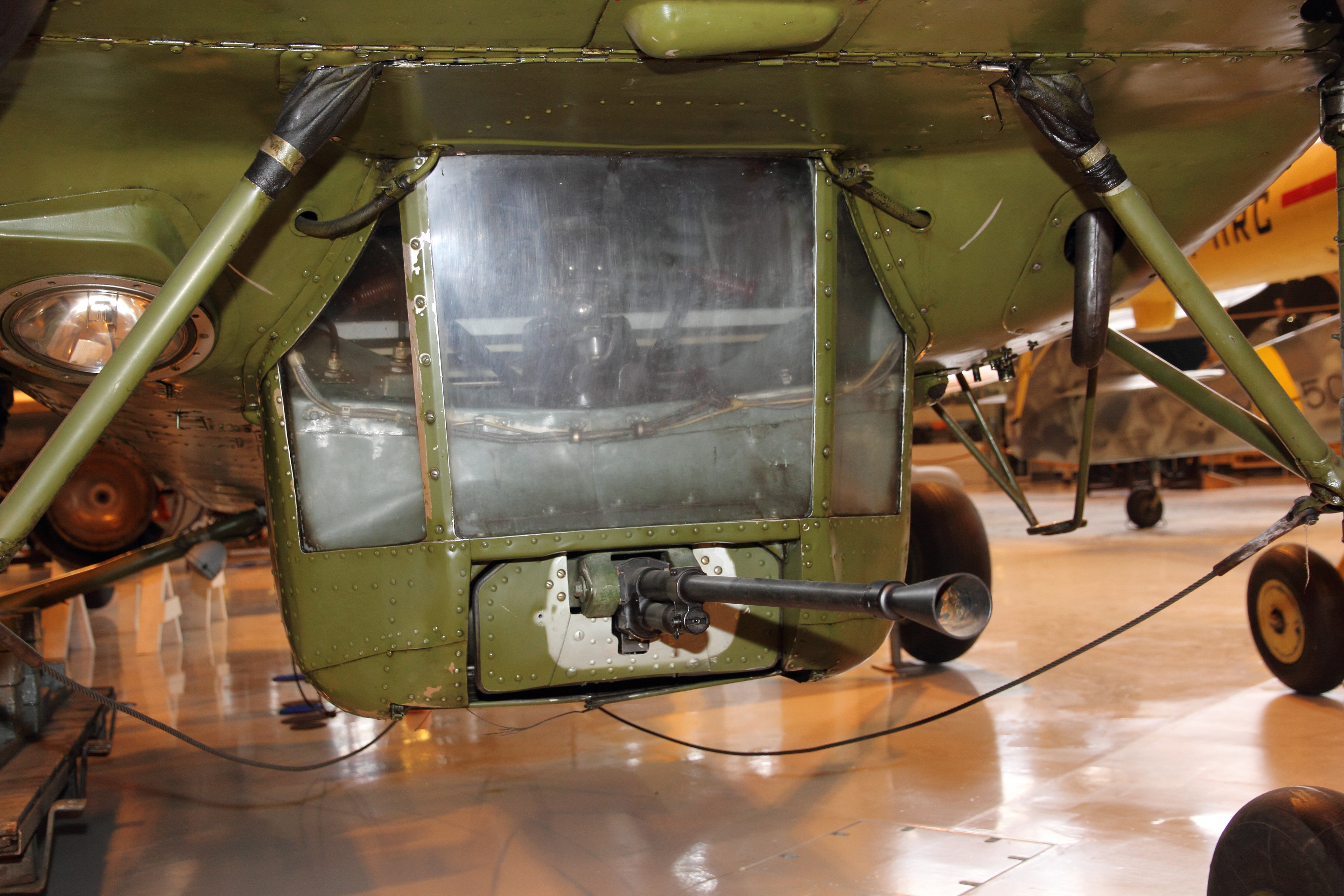 A-12.7 machine gun in the gondola of Mil Mi-4 helicopter (HR-1) in the Aviation Museum of Central Finland.